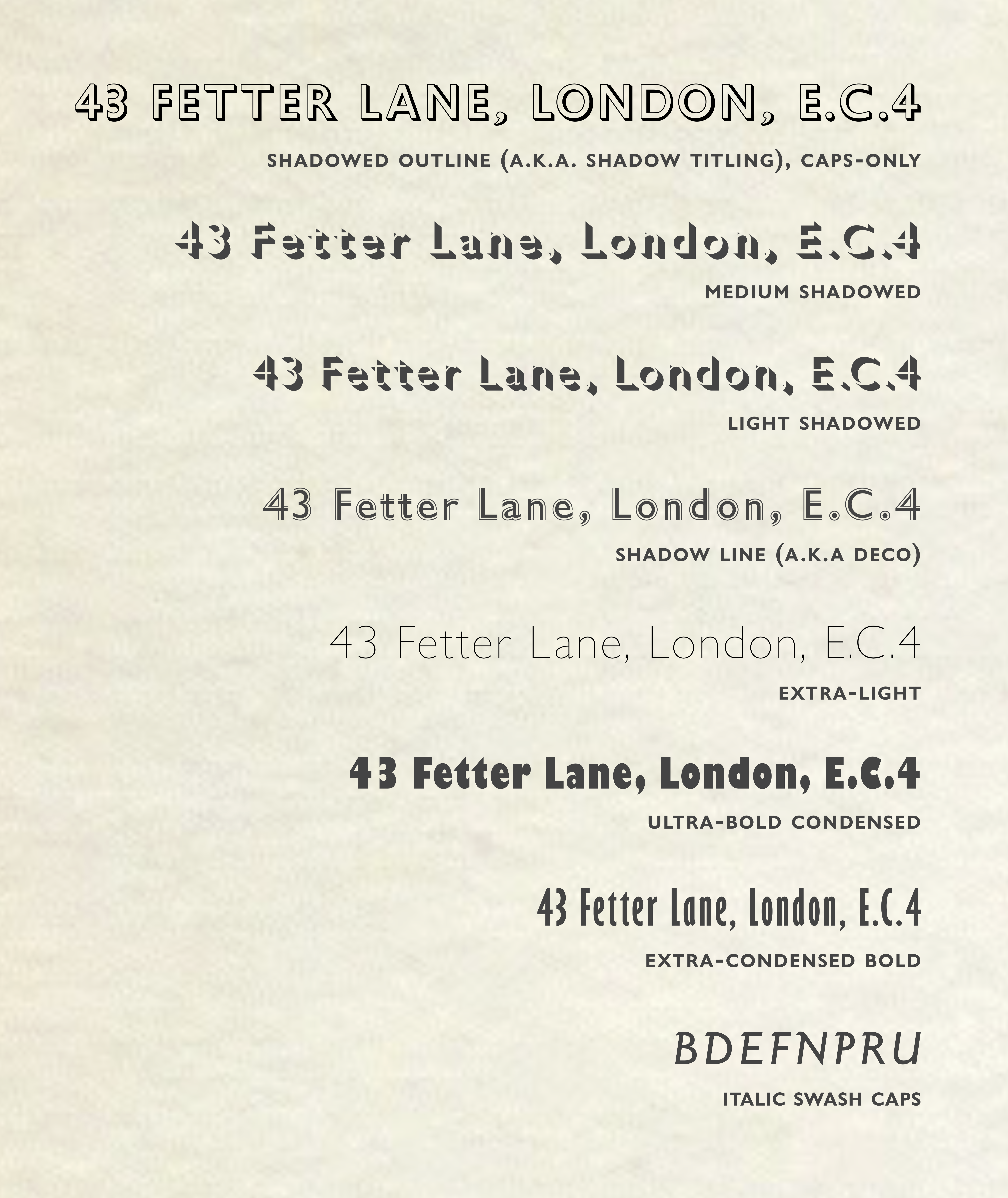 Compilation of the fonts of the Gill Sans family intended for display use, showing the Gill Sans Nova digitisations. (This excludes the inline designs, which I believe were created fresh as part of that project.) It also shows the italic swash caps (and alternate U), which were designed by Gill but abandoned and never cut into metal until now. Sample text is the address of Monotype's London office.